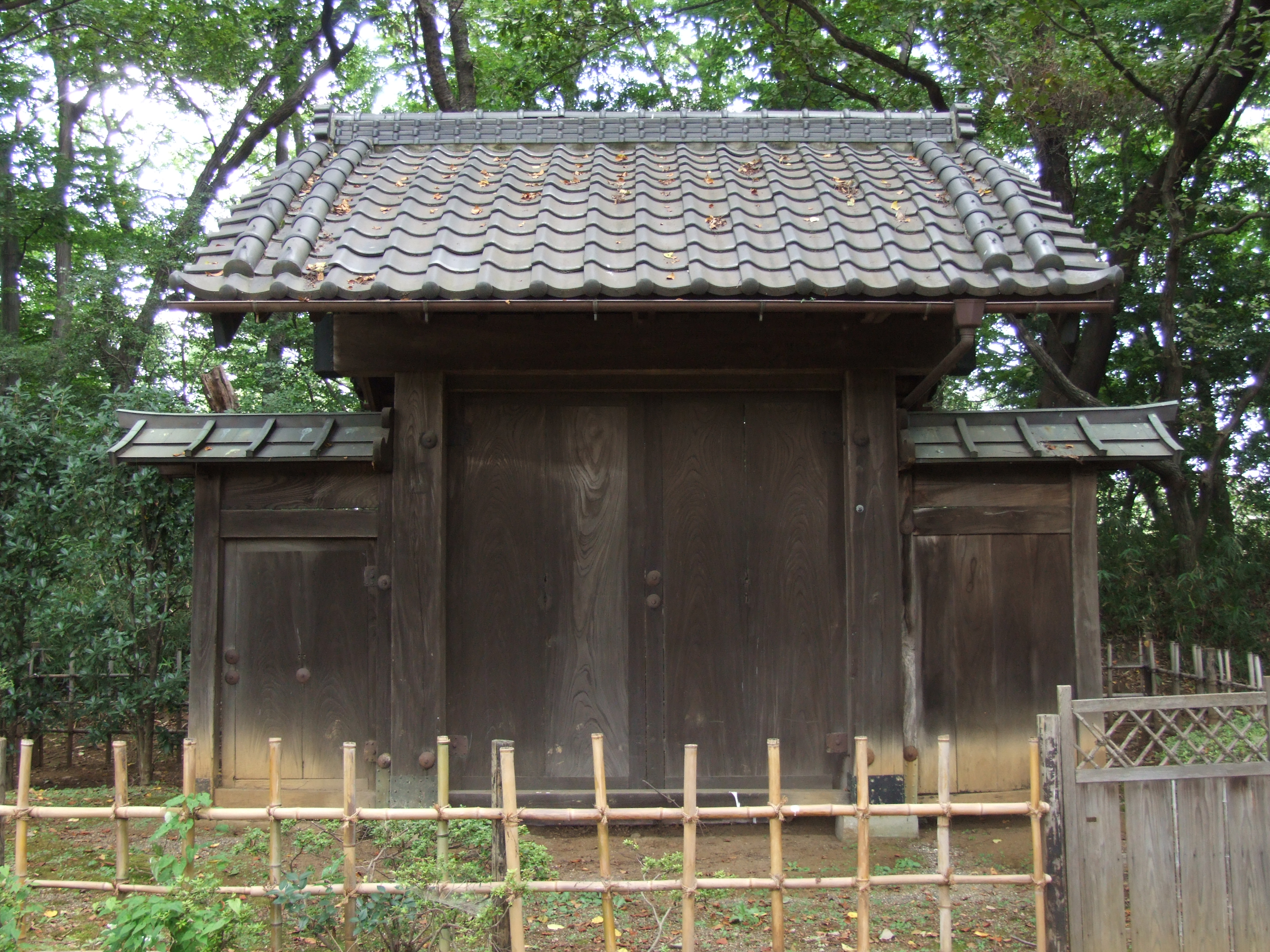 A rear gate of Iwatsuki Castle. Iwatsuki ward, Saitama, Saitama prefecture, Japan. It had been used for a private house since the abolition of Iwatsuki Castle. The owner Arikawa gave it to Iwatsuki City in 1980. It was build in 1770 and has been said a rear gate. But unknown what office's rear.